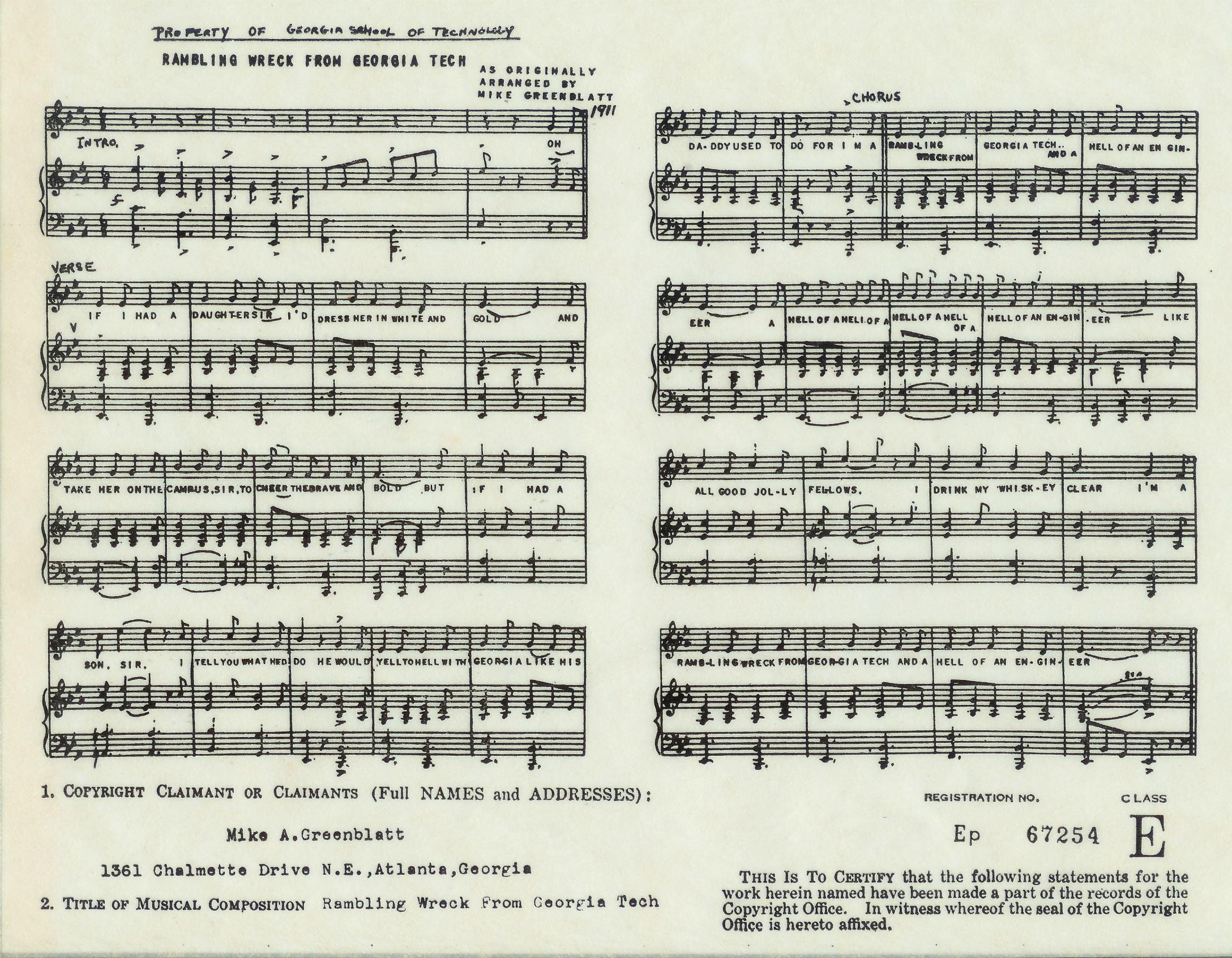 Original arrangement of "Rambling Wreck From Georgia Tech" by Mike Greenblatt in 1911.